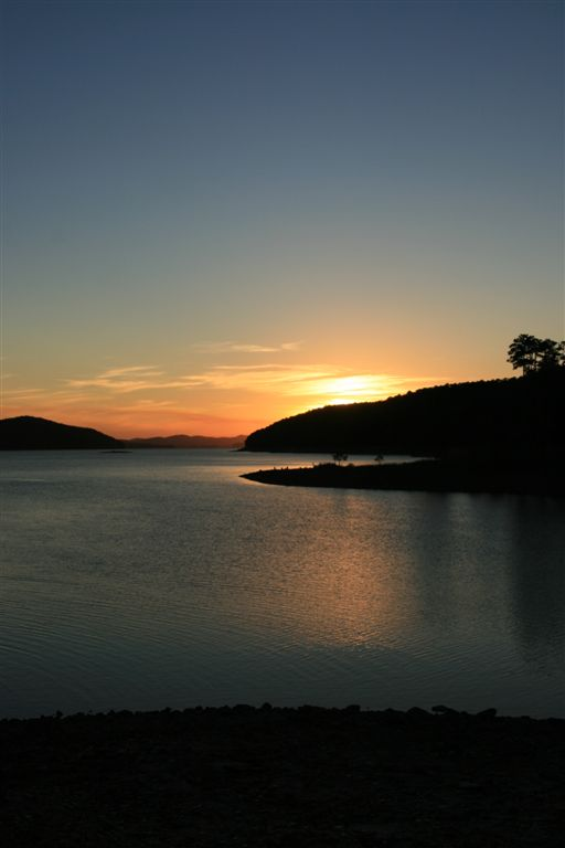 Sunset over Lake Ouachita, Arkansas